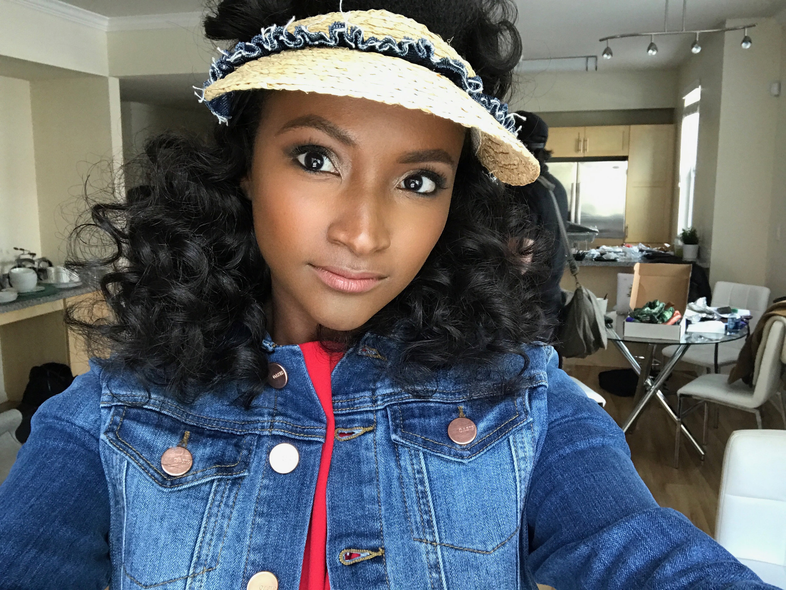 American model and programmer Lyndsey Scott, in a behind-the-scenes modeling photograph.